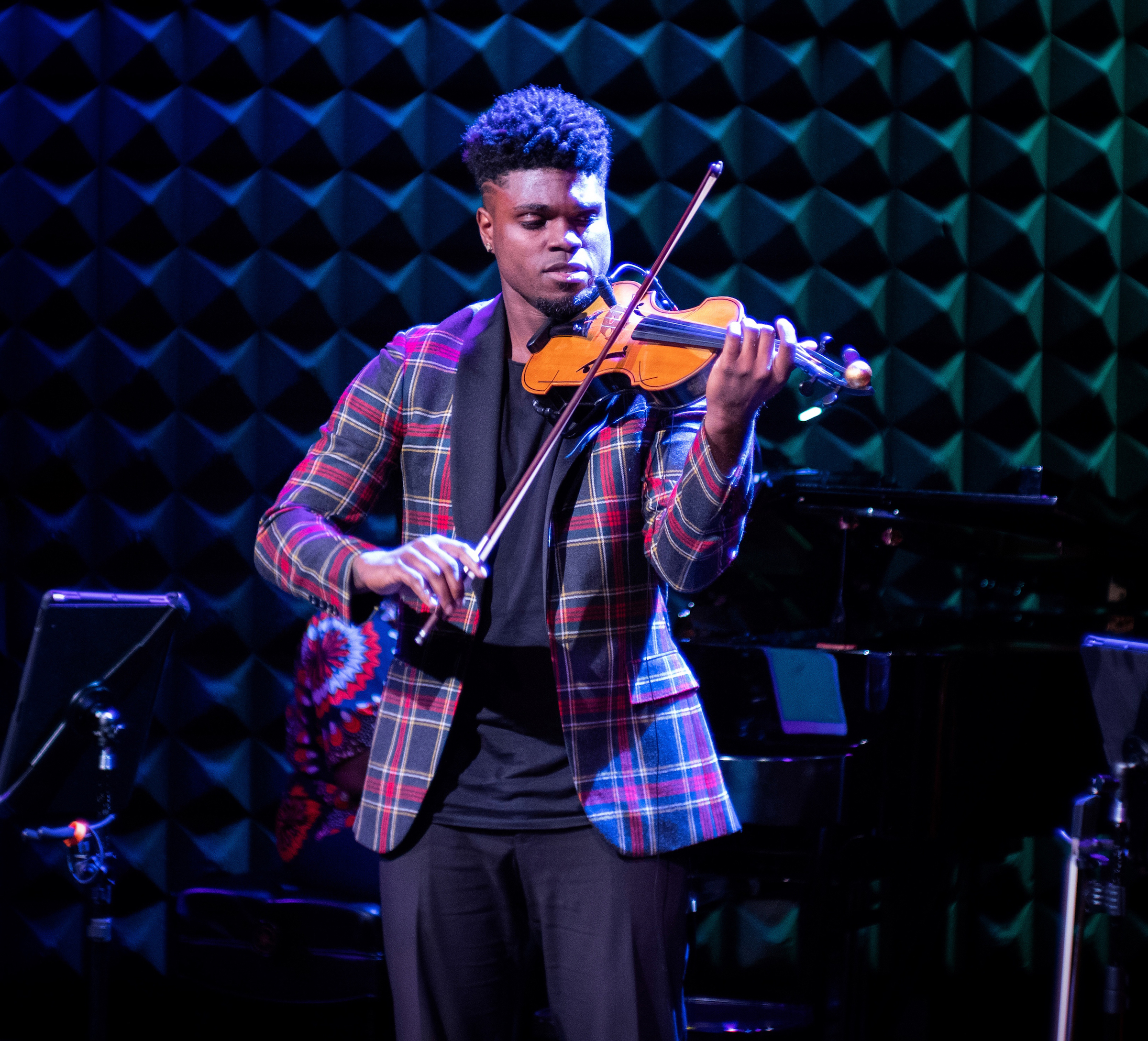 American violinist Edward W. Hardy performanc of "Evolution" in 2019 a part of the Juneteenth Celebration concert held at Joe's Pub At Public Theater. Sony Camera.